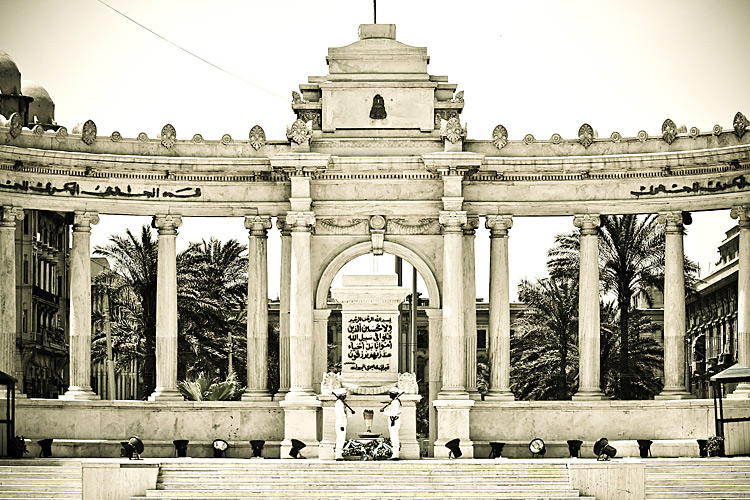 Alexandria Monument